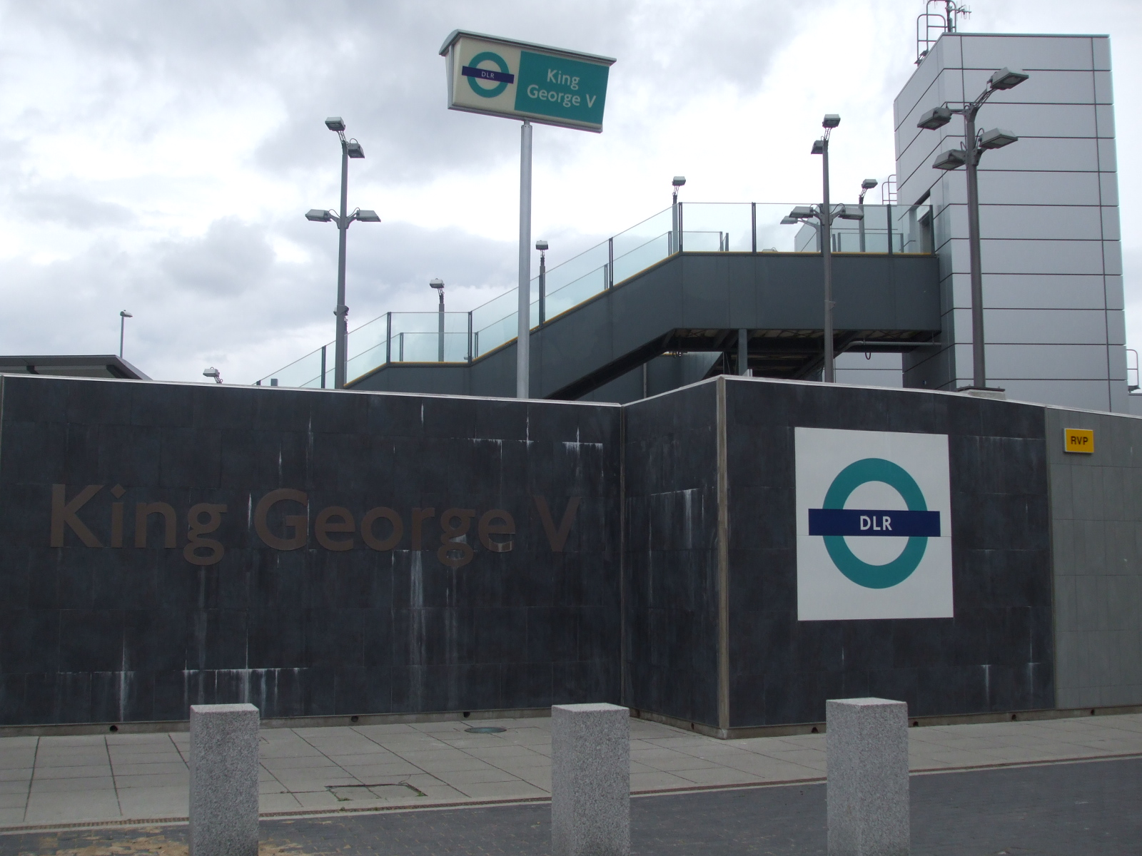 King George V DLR station main entrance, at the eastern end